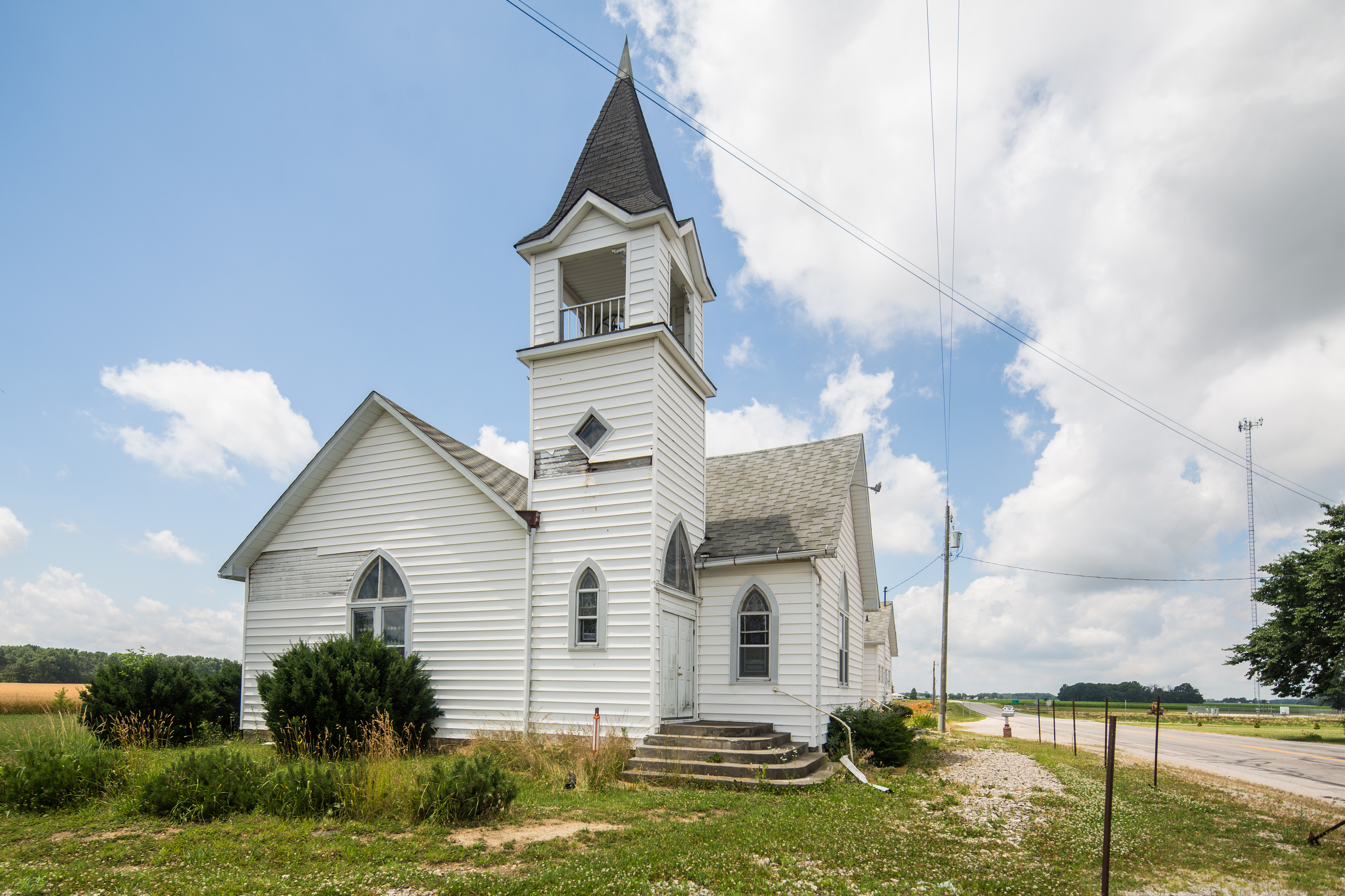 Photo from Small Town Indiana photo survey.